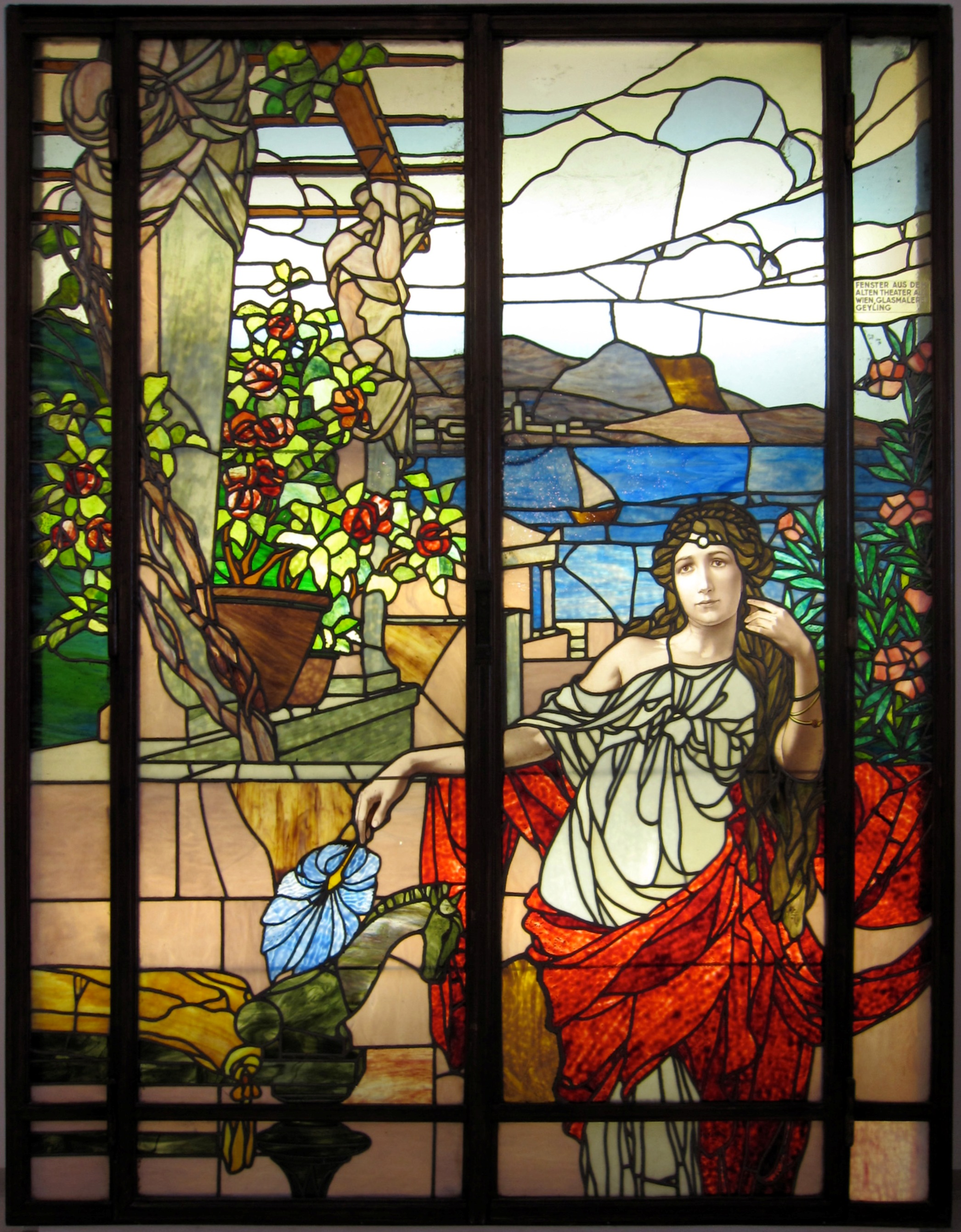 Stained glass window by Carl Geyling's Erben, made around 1900 for the old Theater an der Wien. Artist unknown. Glasmuseum Mariahilf.